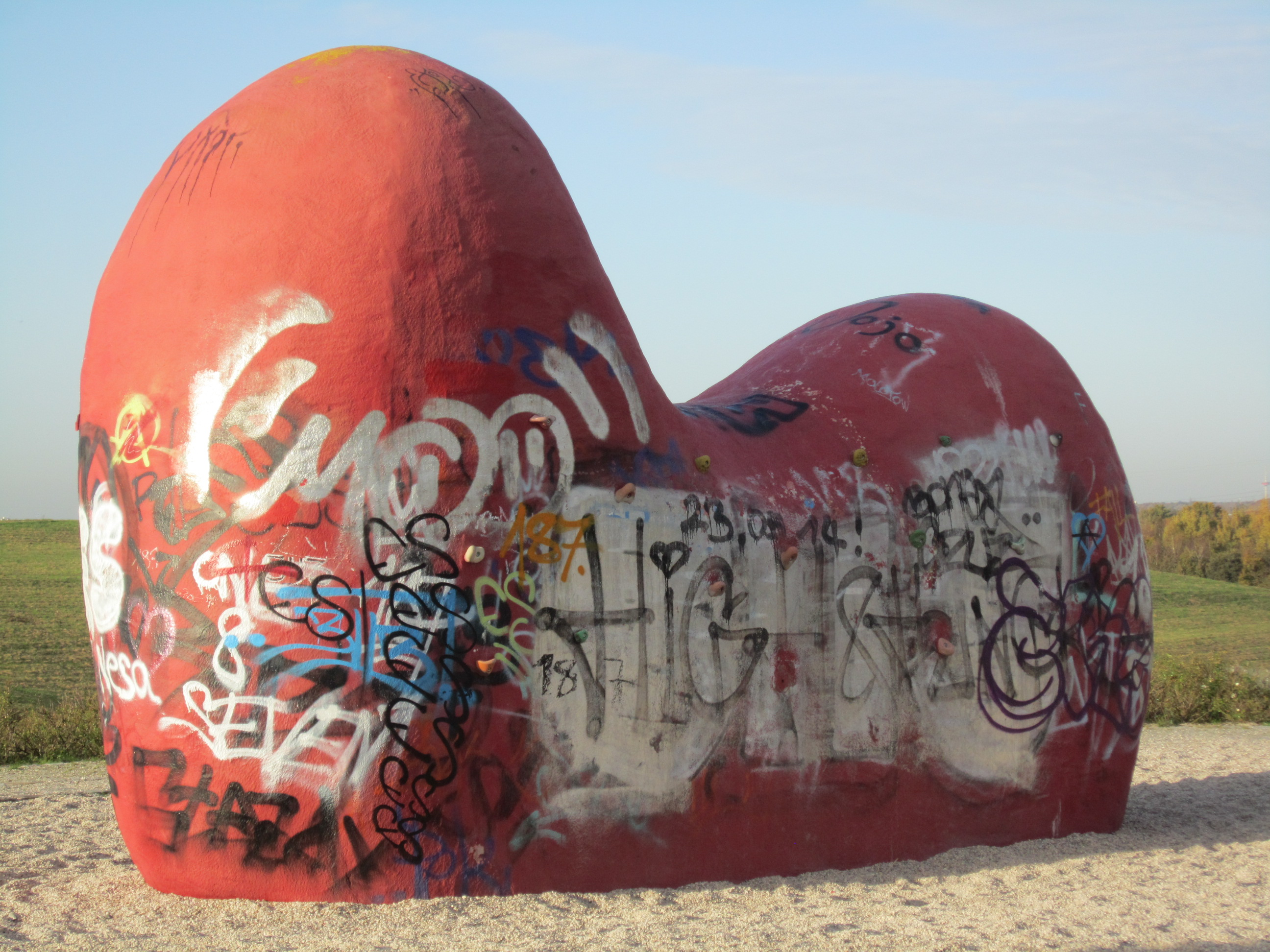 Artwork on the southern hill of the "Utkiek" (former garbage bing in Osternburg)